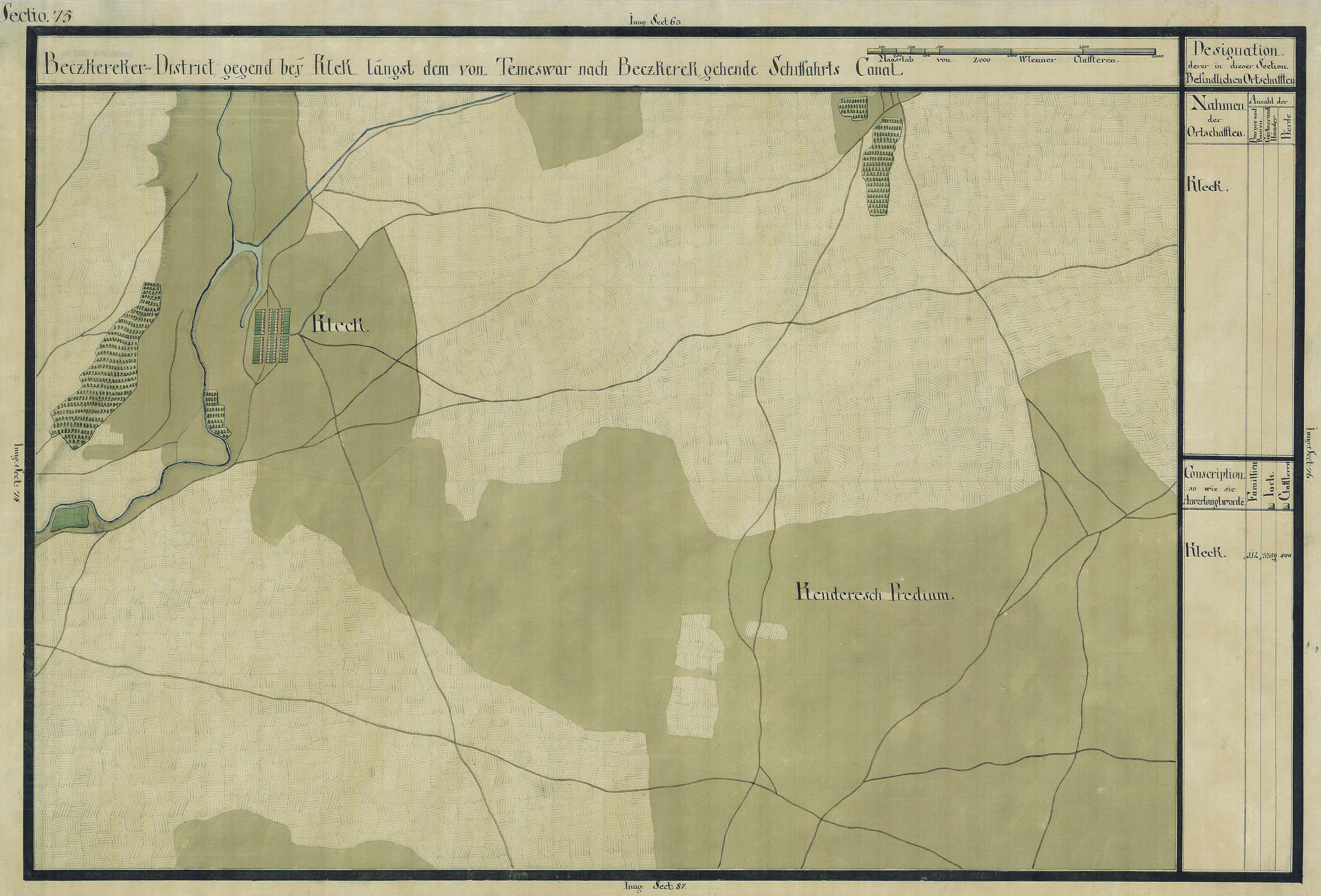 The Banat region in the cadastral maps: Josephinische Landesaufnahme, 1769-72. Josephinische Landaufnahme pg075